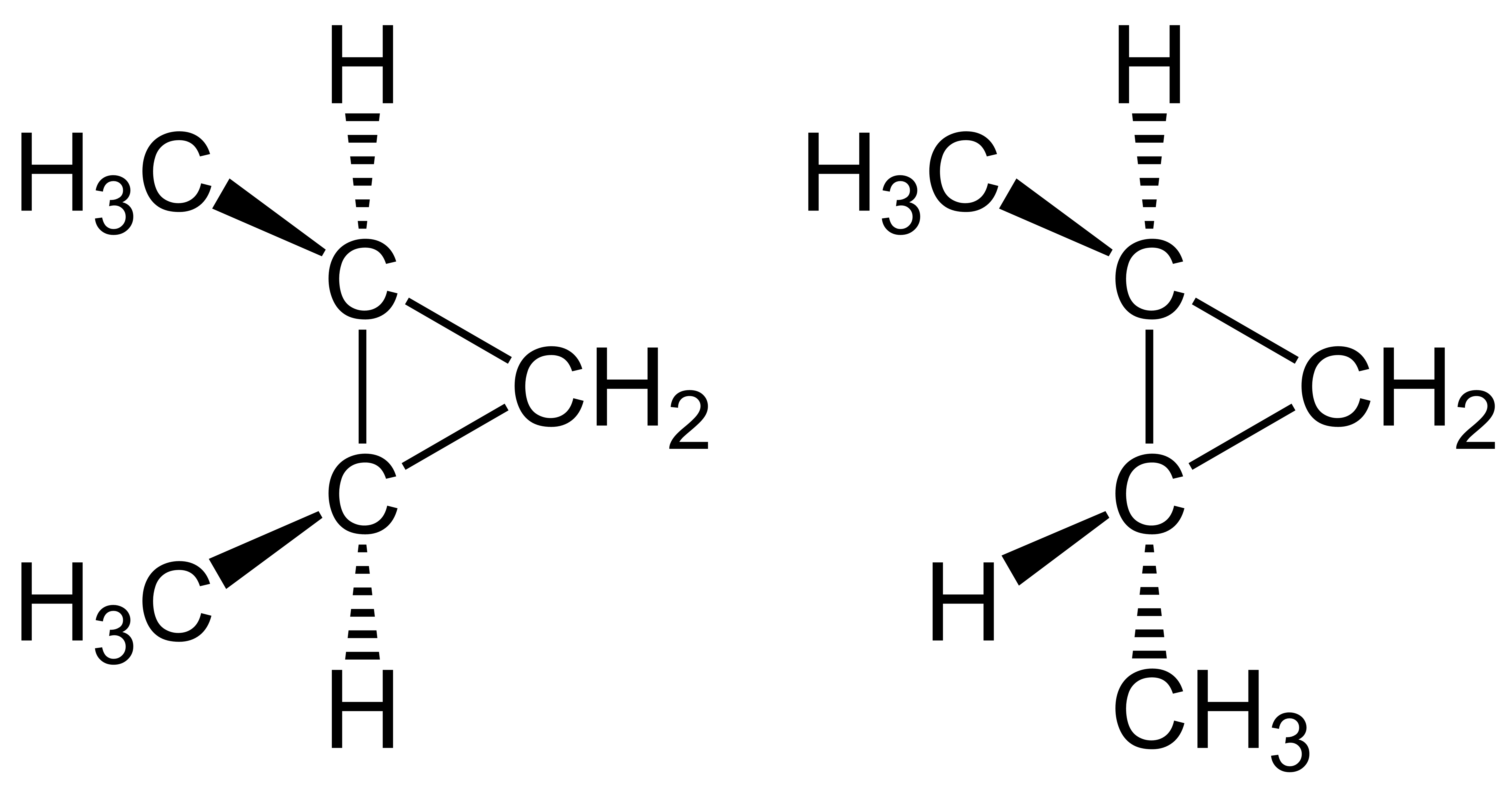 Skeletal formula of cis- and trans-1,2-dimethylcyclopropane